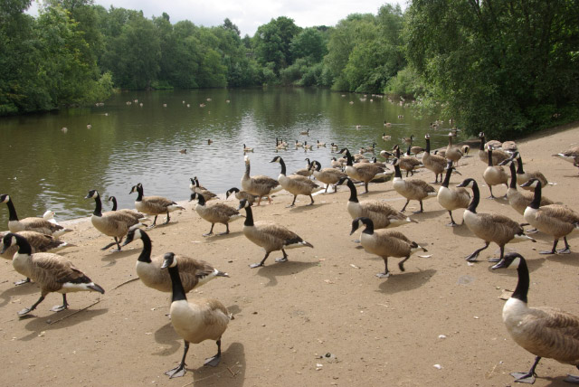 Canada Geese, Heaton Park A large flock of Canada geese by the boating lake in Heaton Park. They are heading towards someone who they hope will feed them.